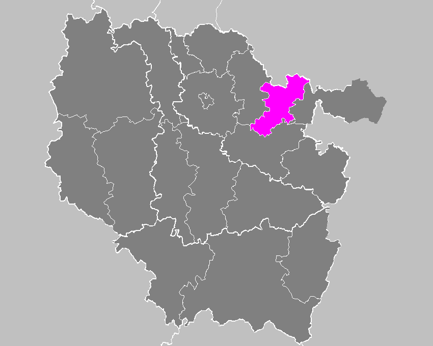 Maps of arrondissements and cantons of France: Arrondissement de Forbach.PNG